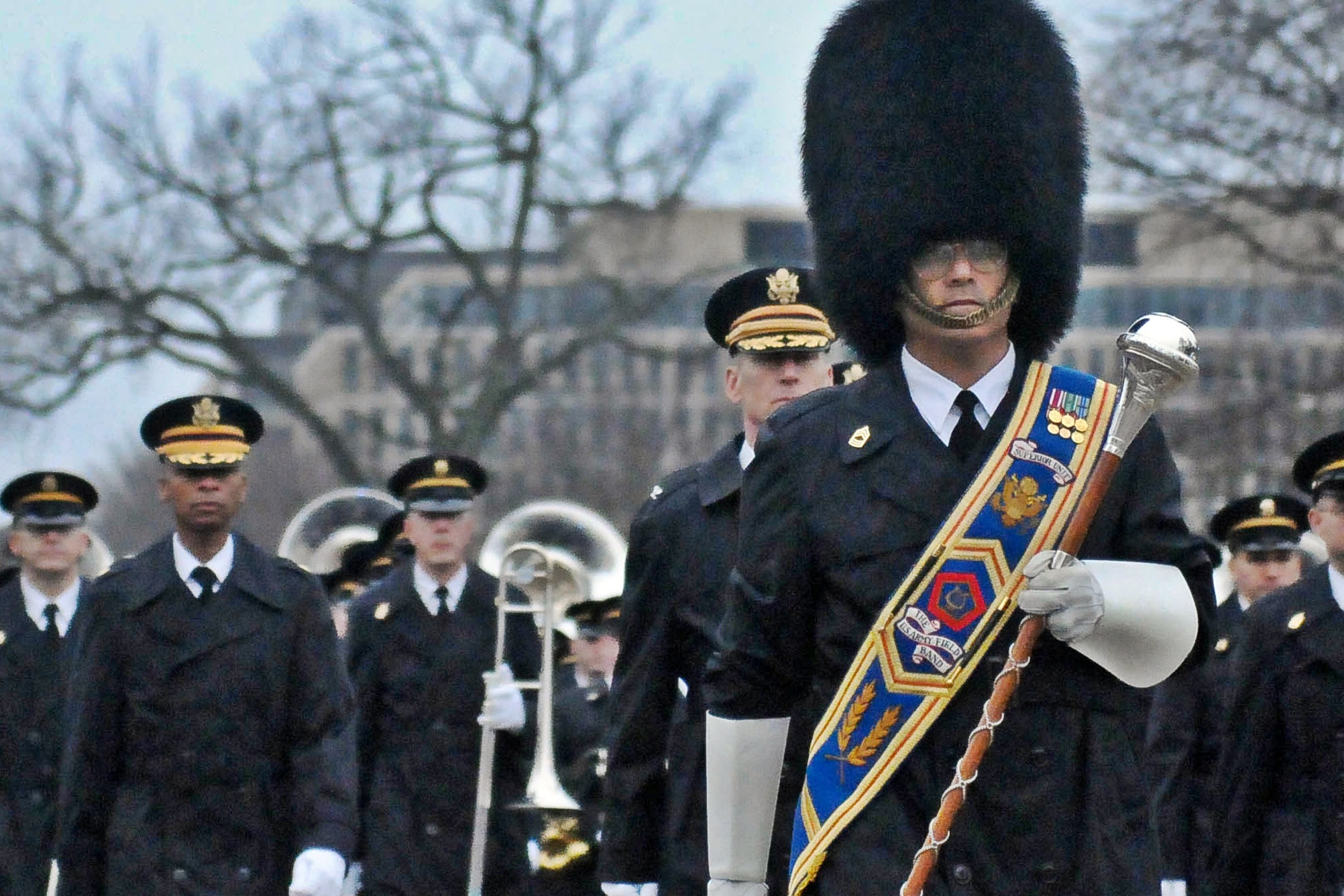 The U.S. Army field band marches through the streets of Washington, D.C. during the presidential inaugural parade dress rehearsal, Jan. 13, 2013. Military involvement in the presidential inauguration dates back to April 30, 1789, when members of the U.S. Army, local militia units and revolutionary war veterans escorted George Washington to his first inauguration ceremony. (DoD Photo by Staff Sgt. Antwaun J. Parrish)